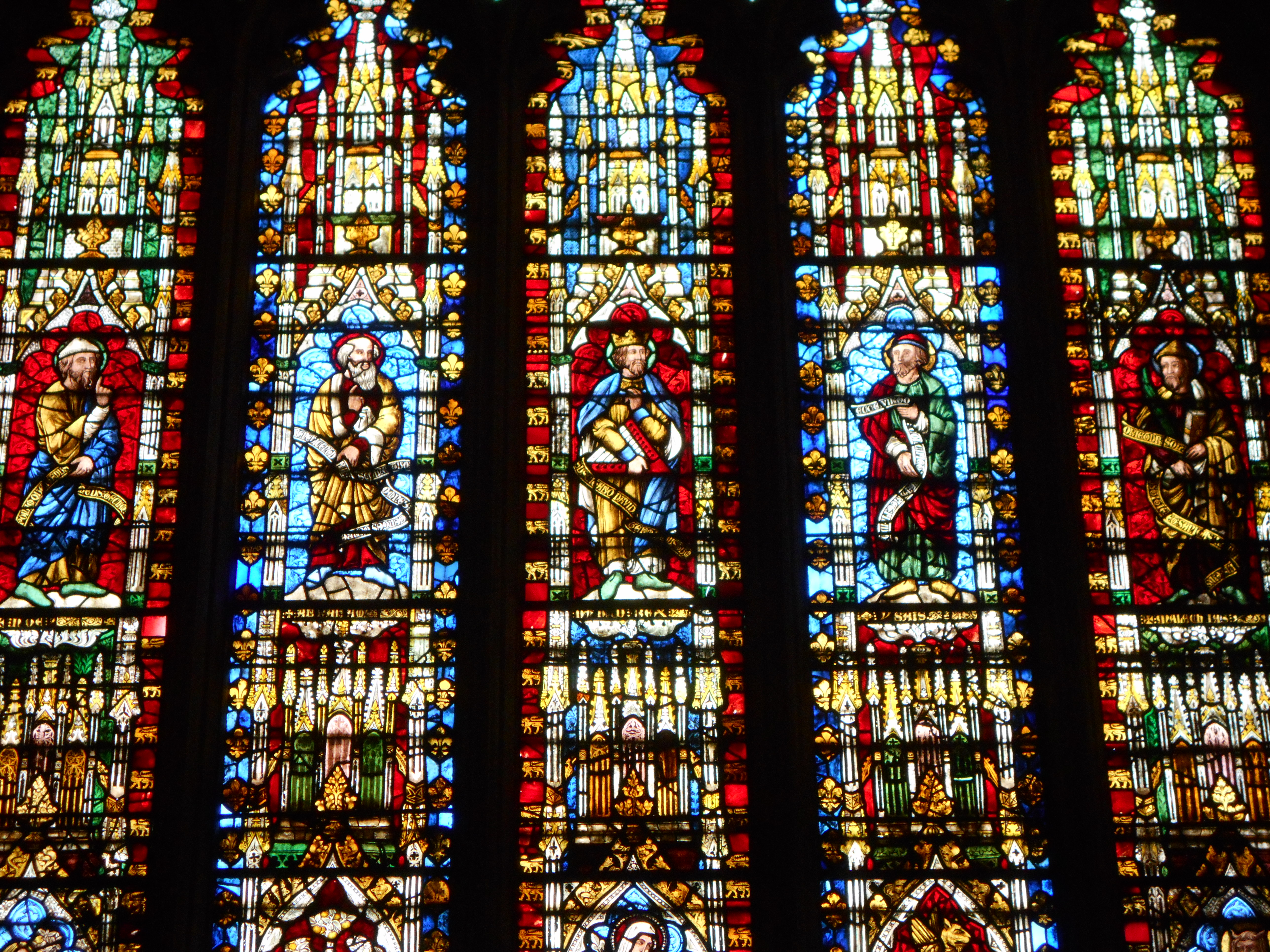 Wells Cathedral Wikidata has entry Q519614 with data related to this item.